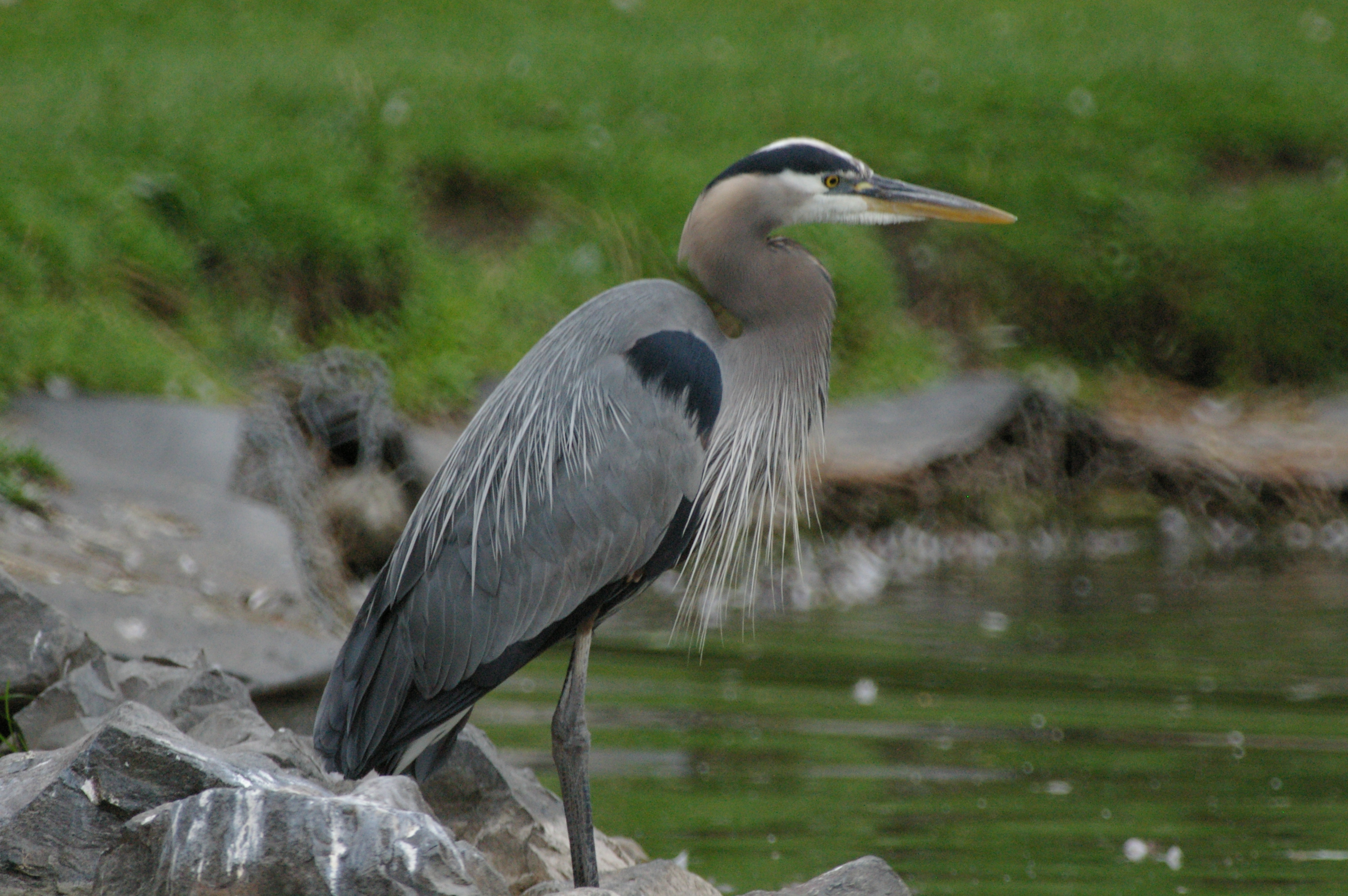 An image demonstrating the donut-shaped bokeh that a catadioptric lens produces.